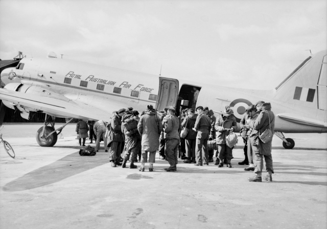 Iwakuni, Japan. Soldiers of units and battalions of all British troops wait to board the waiting Douglas C47 Dakota aircraft of No. 30 Transport Unit for the flight to Korea.